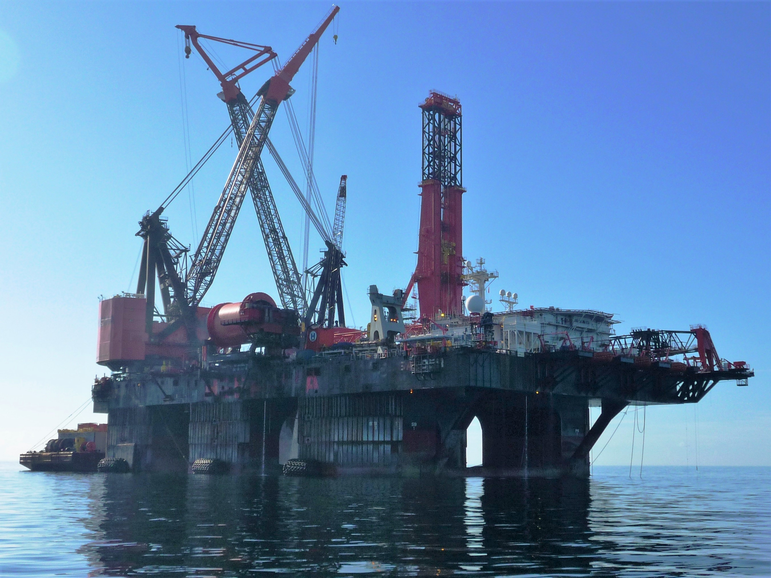 Balder off Trinidad